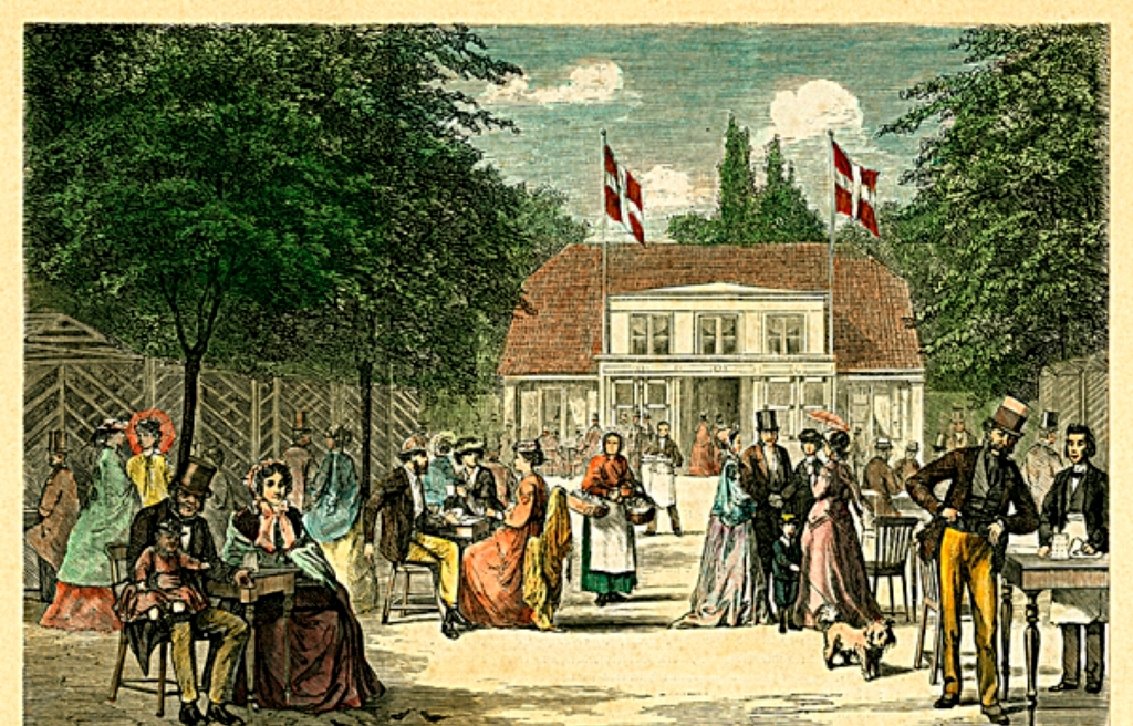 cColoured woodcut after drawing by unknown artist showing the Jostys Pavillon at Pile Allé in Frederiksberg, Copenhagen, Denmark. Danish: "Jostys Pavillon med udendørs servering i haven. Josty åbnede i et telt i Frederiksberg Have i 1813. I 1824 blev teltet erstattet af et hus, der blev ombygget i 1834 og i år 1900. Schweizeren Anton Josty overtog stedet i 1825, der forblev i familiens eje indtil 1937".